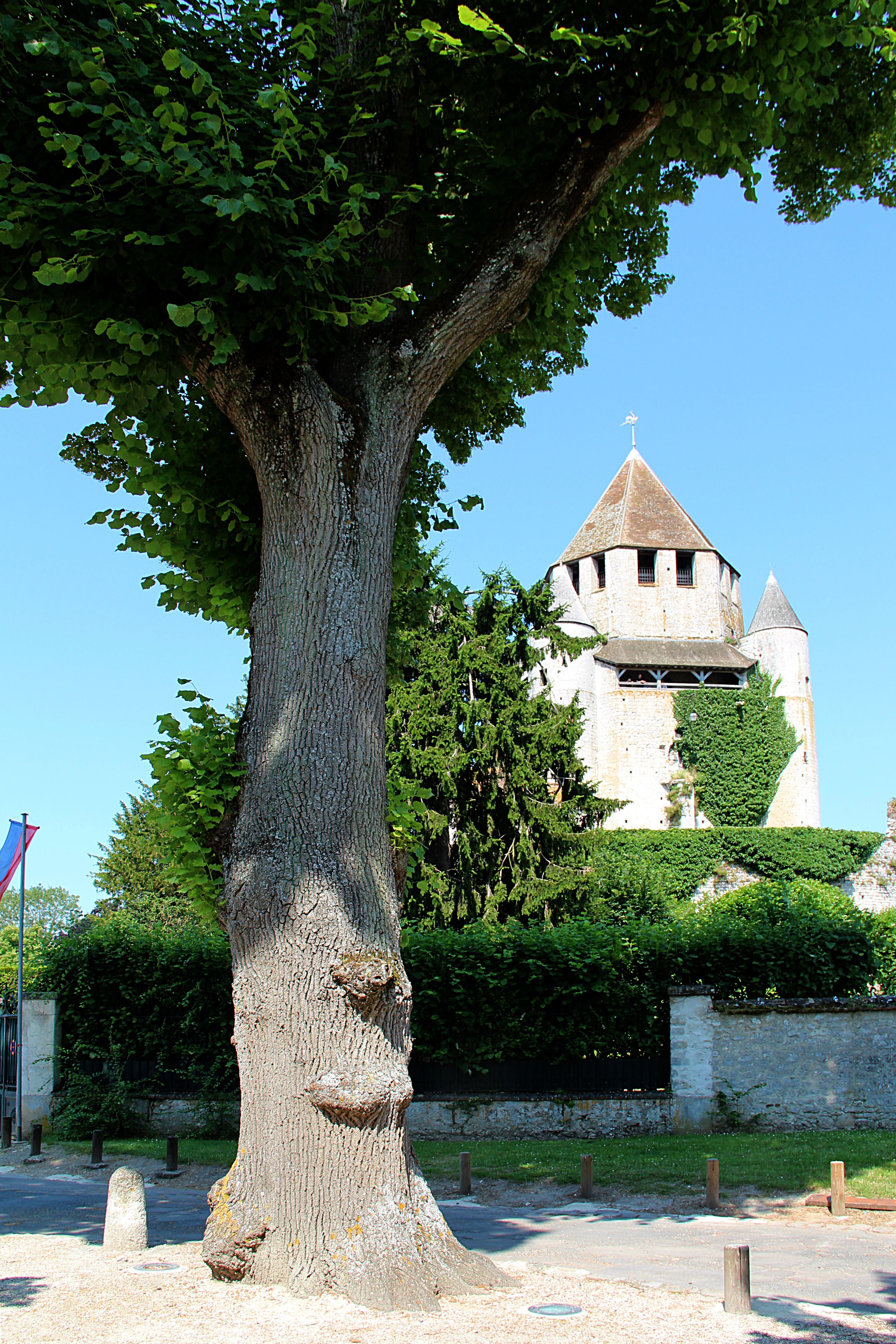 Provins (Île-de-France), wish tree in the Place Saint-Quiriace.